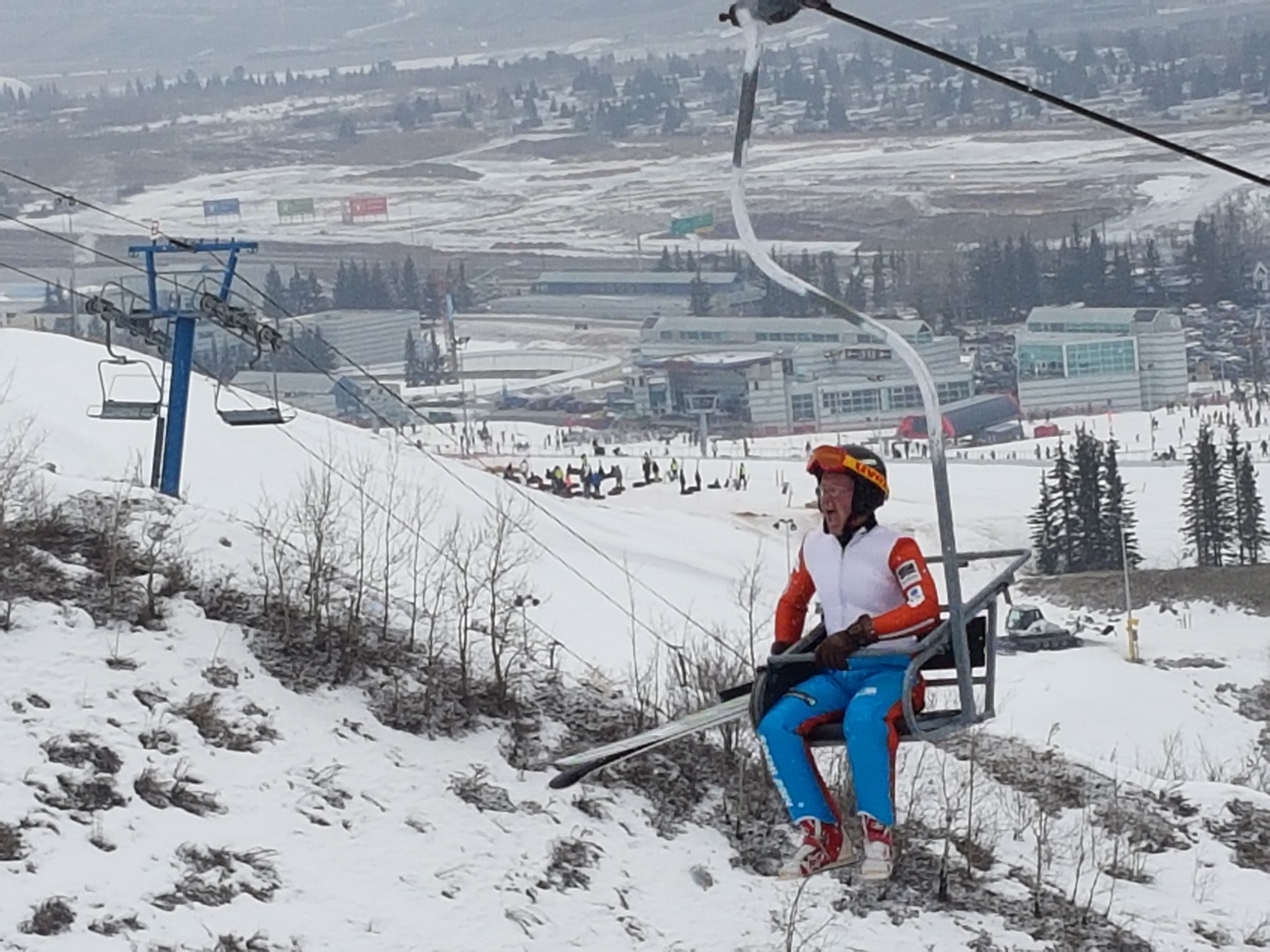 Eddie "The Eagle" riding lift prior to jumps at Calgary site of 1988 Olympics in March 2017.